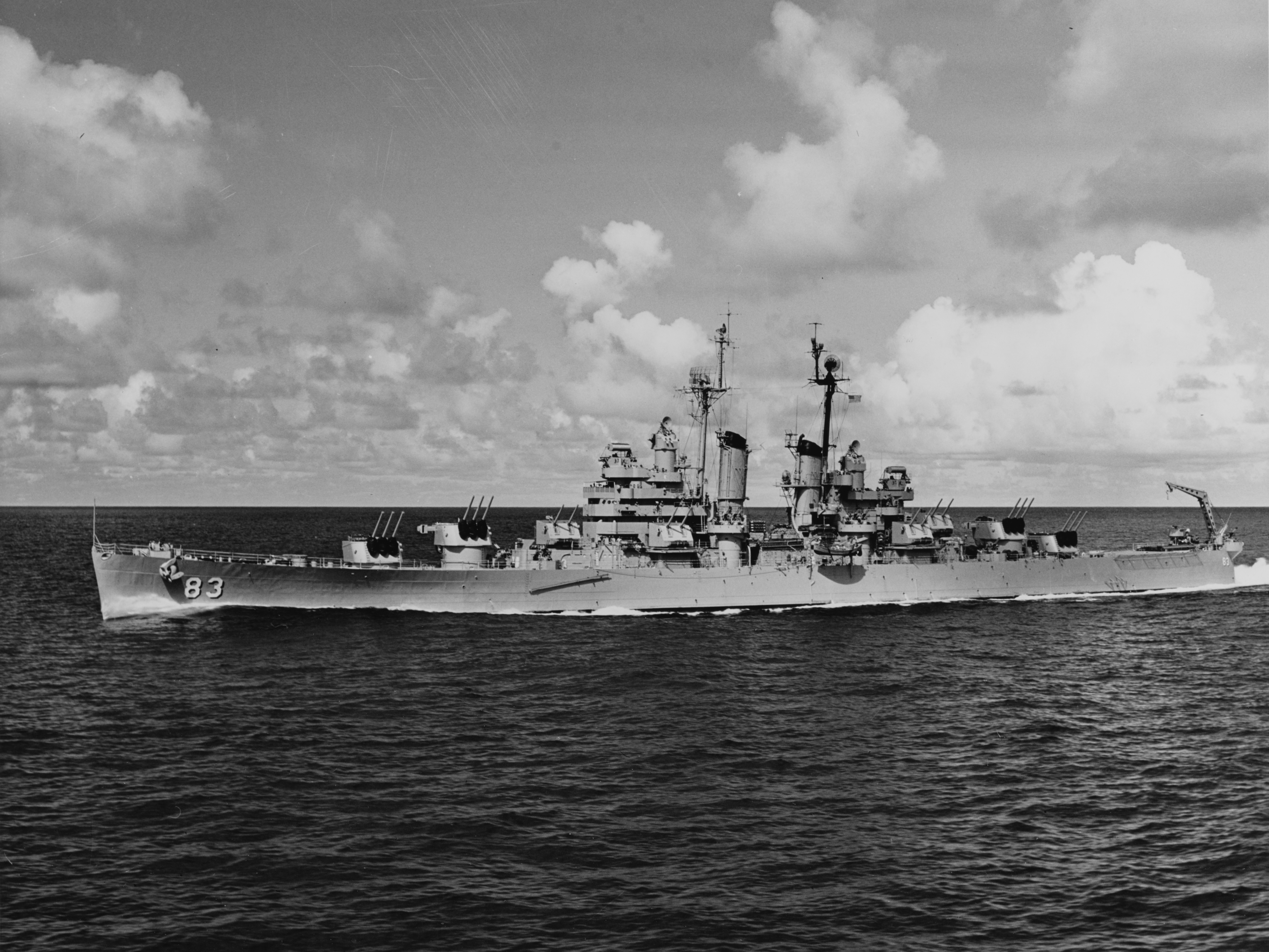 The U.S. Navy light cruiser USS Manchester (CL-83) underway off Korea. All of her 6-inch gun turrets, four of her 5/38 gun mounts and all of her main and secondary gun directors are trained on the port beam. The photo is dated November 1953, but was actually taken during Manchester's first two Korean War tours, 1950-52. Oroginal caption: "USS Manchester returning to bombline off coast of Korea after a short rest period in Yokosuka, Japan."